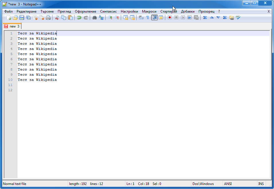 This is a picture notepad ++, runnig on Windows, and with typed text "Тест за Wikipedia"